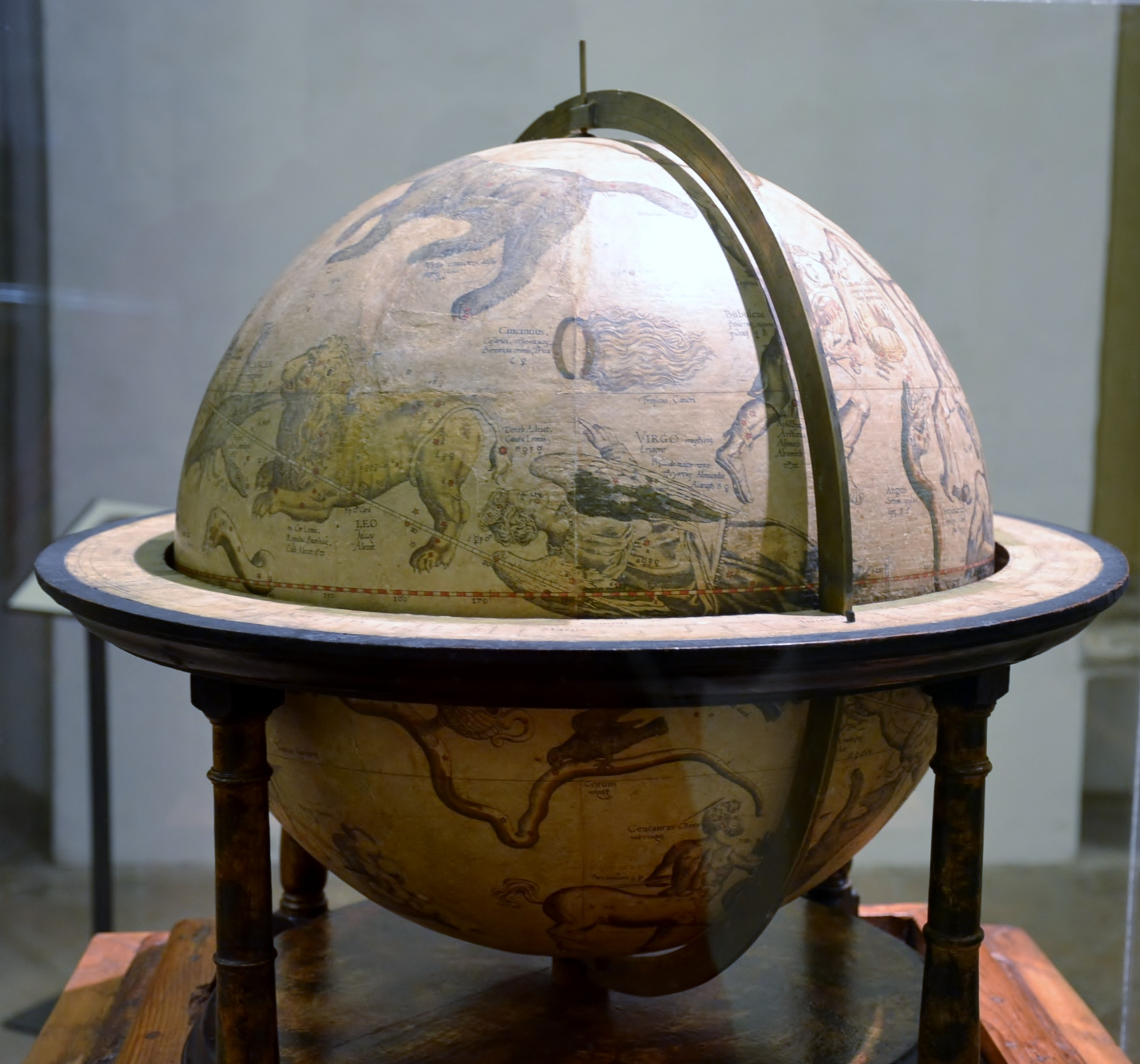 Globe from Gerardus Mercator, 1551